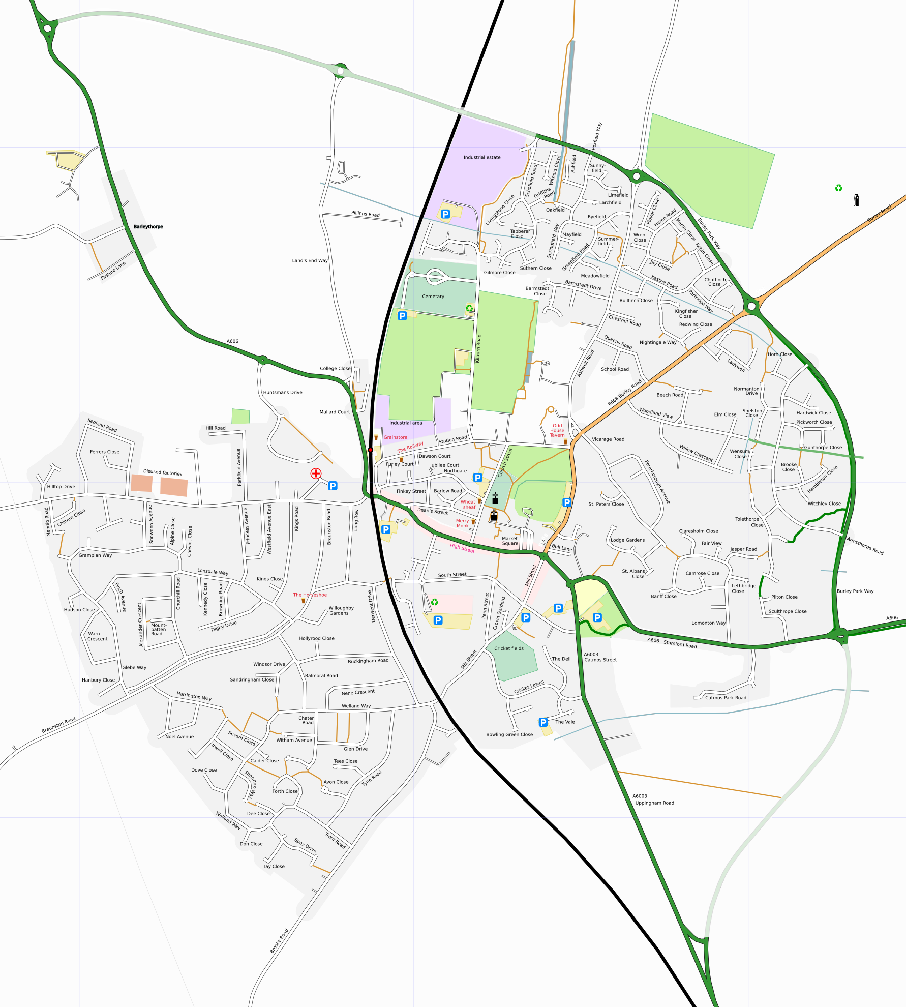 This map may be incomplete, and may contain errors. Don't rely solely on it for navigation.